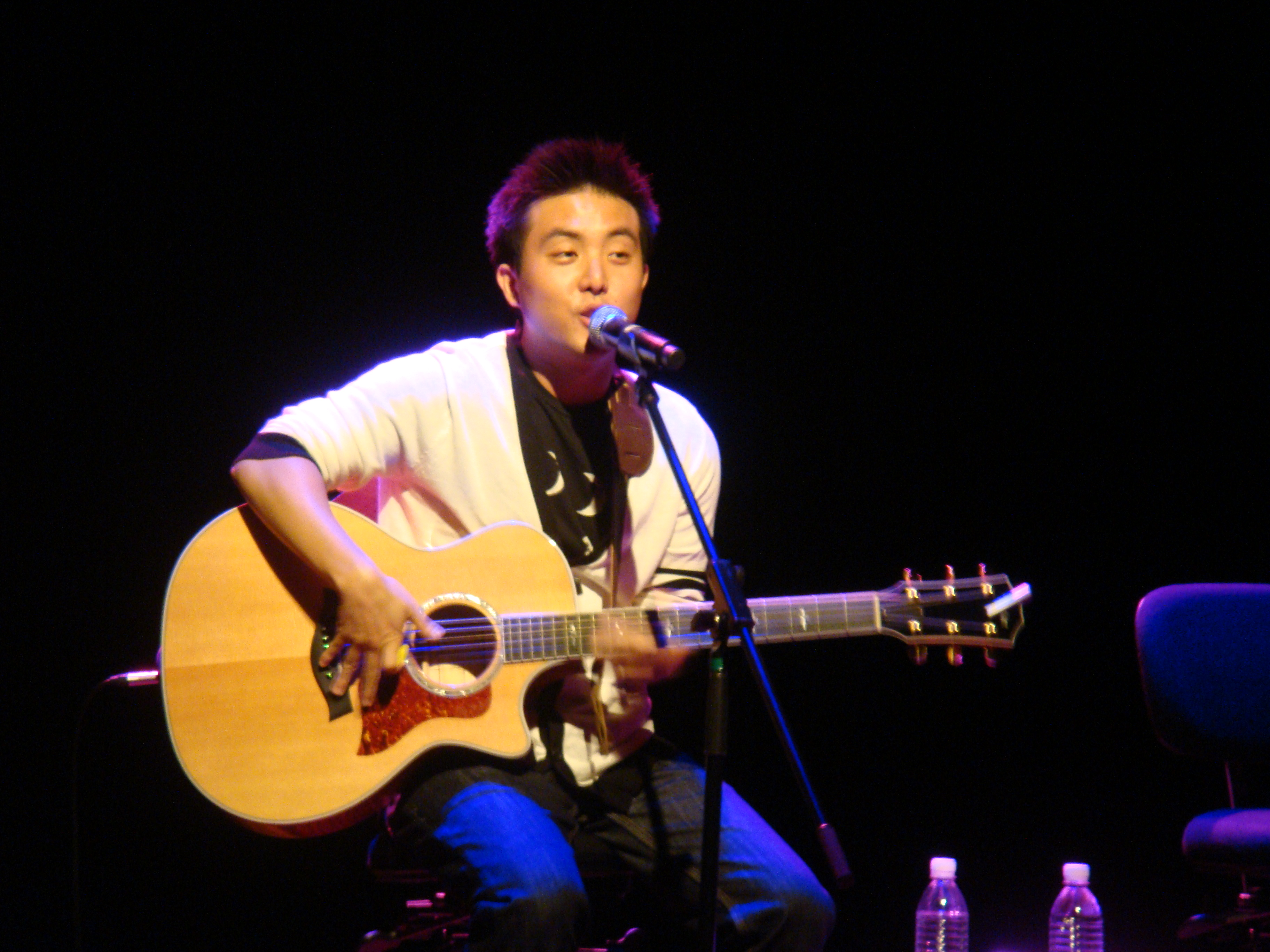 David Choi at the Esplanade Recital Studio in Singapore singing his new song "This And That". It was a song he wrote in 2010 and introduced in the second gig in Singapore during his Asia-Pacific Tour 2011.